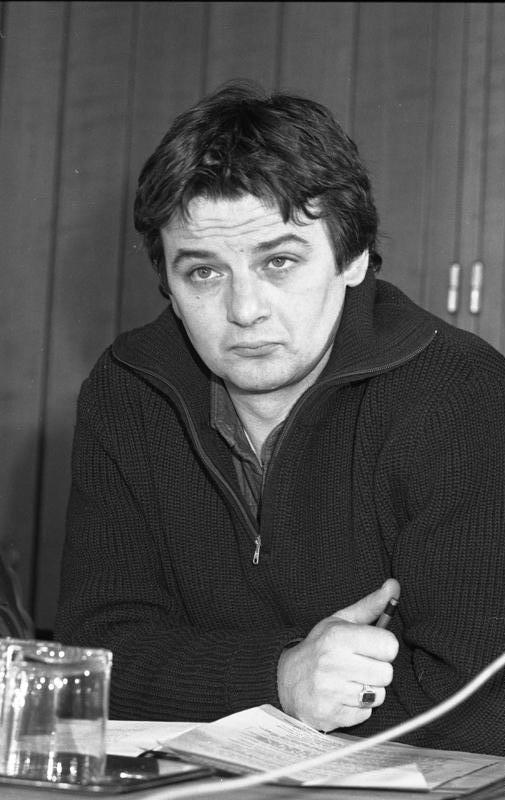 Joschka Fischer, Green Party of Germany, at a press conference at the restaurant "Tulpenfeld" in Bonn on the upcoming elections to the Federal Parliament (Bundestag) on 1983-03-06